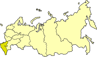 far east: economic region based on Image:Economic regions of Russia.png